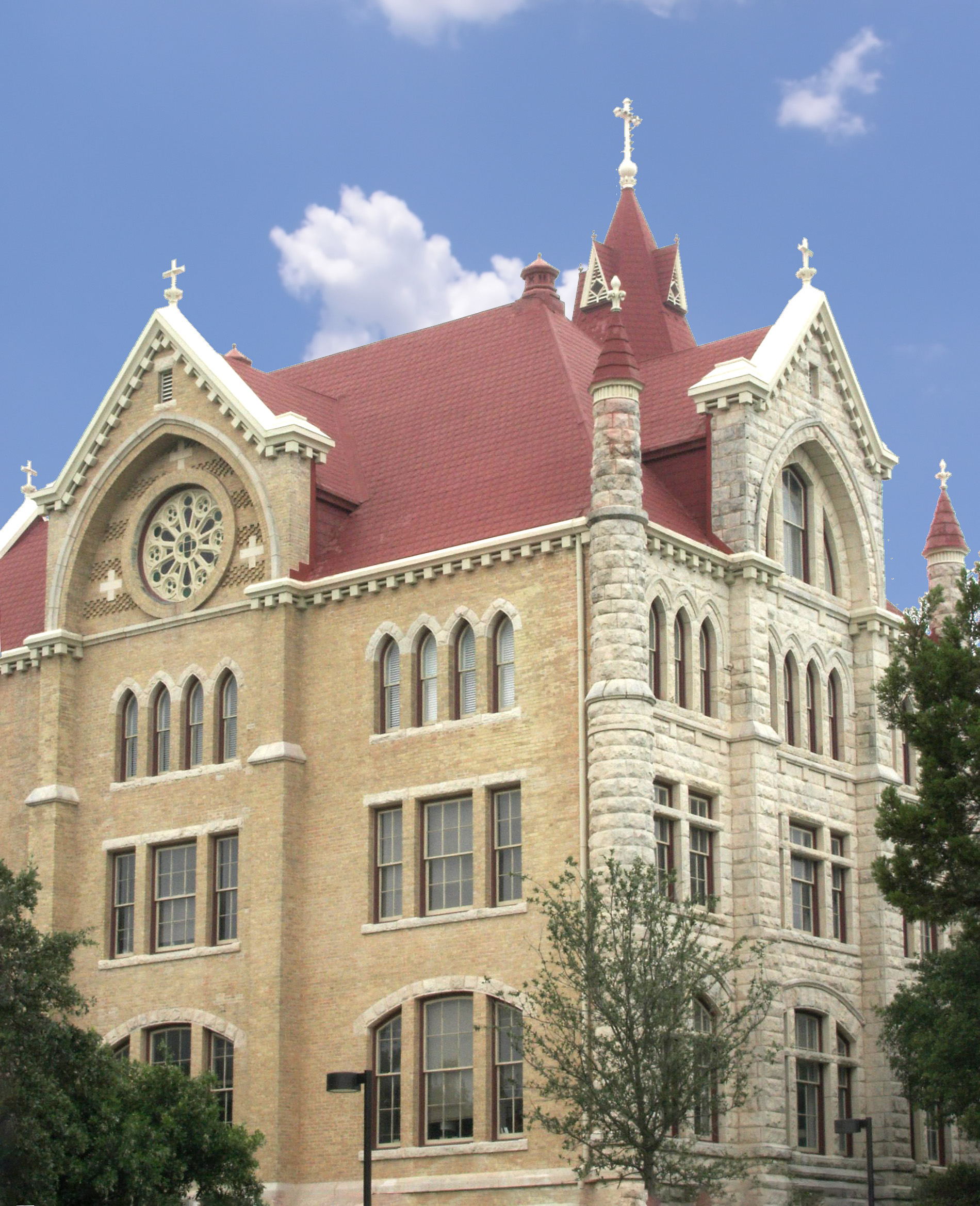 Southeast corner of the main building at St. Edward's University.